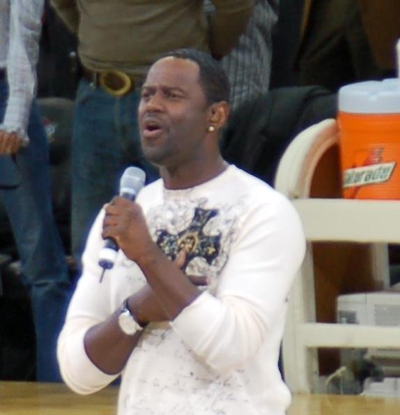 Brian McKnight appears to be singing the national anthem at the start of a Cleveland Cavaliers home game at the Quicken Loans Arena as they host the Washington Wizards.